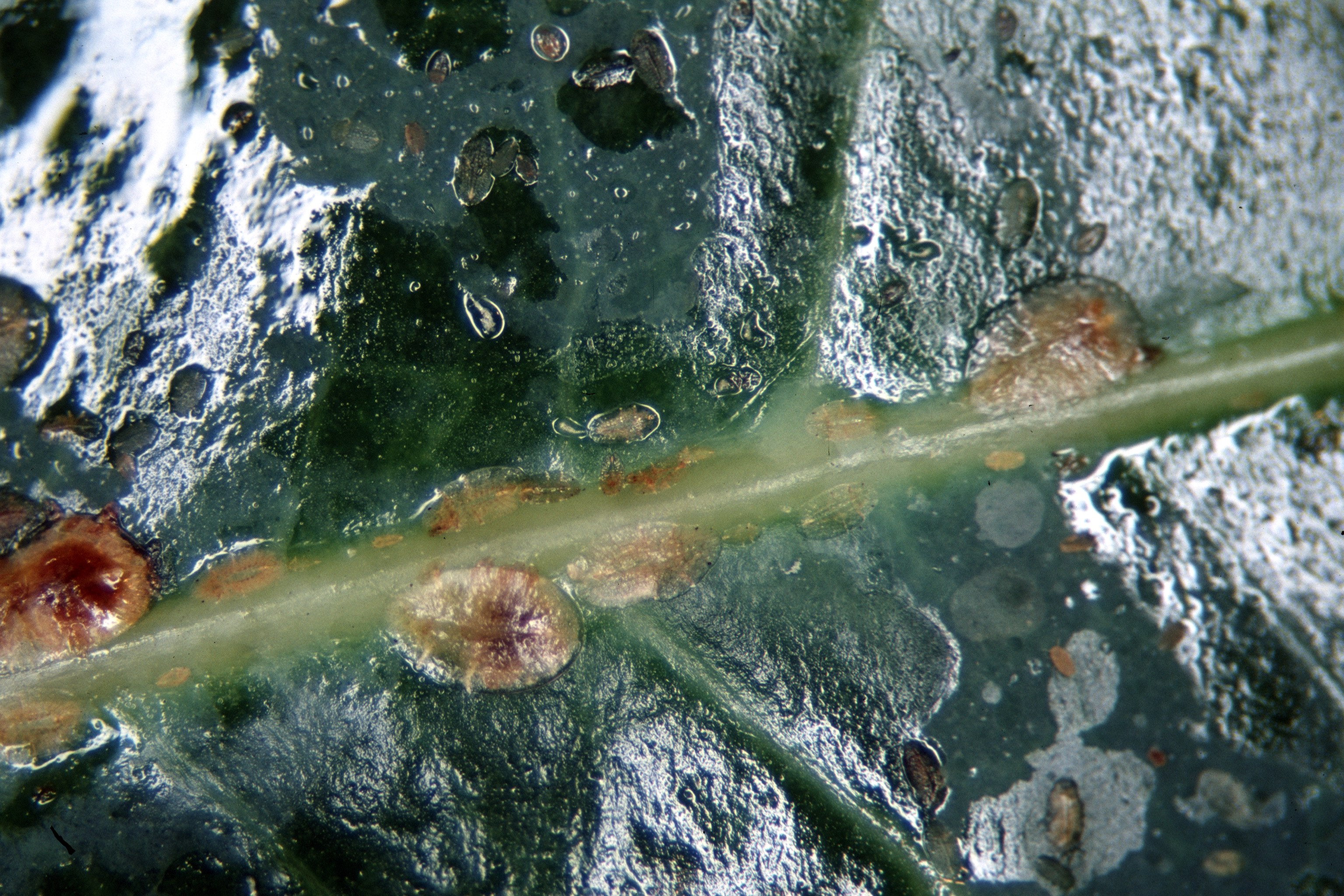 Coccus hesperidum, various life stages and honeydew on Ficus